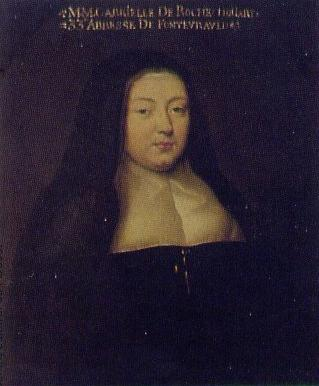 Portrait of Marie Madeleine de Rochechouart (1645–1704), Abbess of Fontevraud and sister of Madame de Montespan.